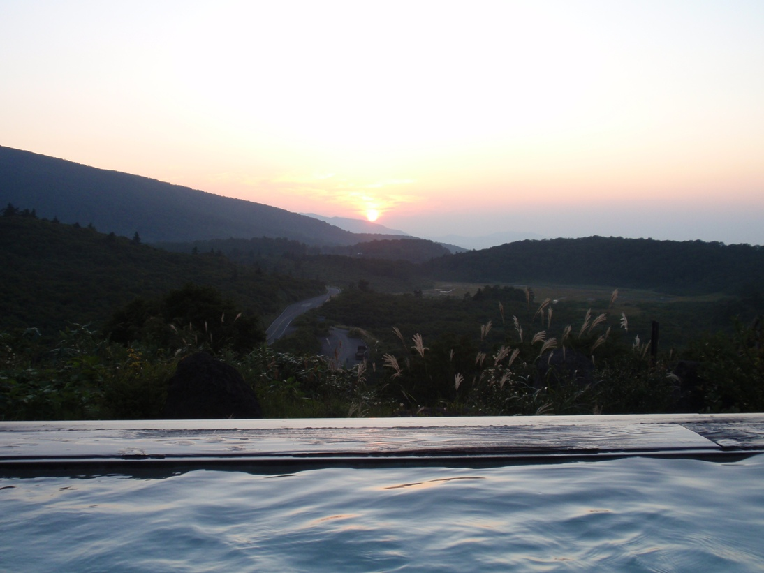 Sugawa Onsen in Higashinaruse, Akita.